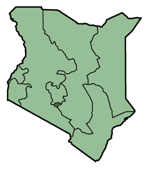 Nairobi Province of Kenya